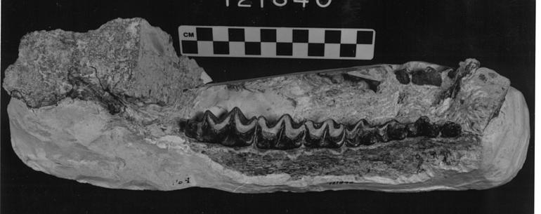 Telmatherium, University of California Museum of Paleontology